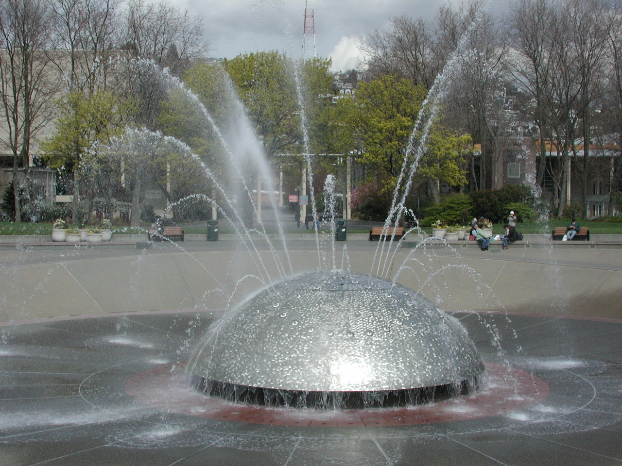 On top of its attraction to the community, the Fountain also takes care of nature. All of the water is recycled and it’s probably the cleanest in the city, with three types of treatment before it ever reaches the public. Located in the middle of the campus, the fountain operates all year round. The fountain was built as a modernist water sculpture. With over 20 Spouts, the fountain goes through programmed cycles of shooting water patterns, accompanied by recorded world music. The music is changed every month, and chosen to coordinate with the water patterns.